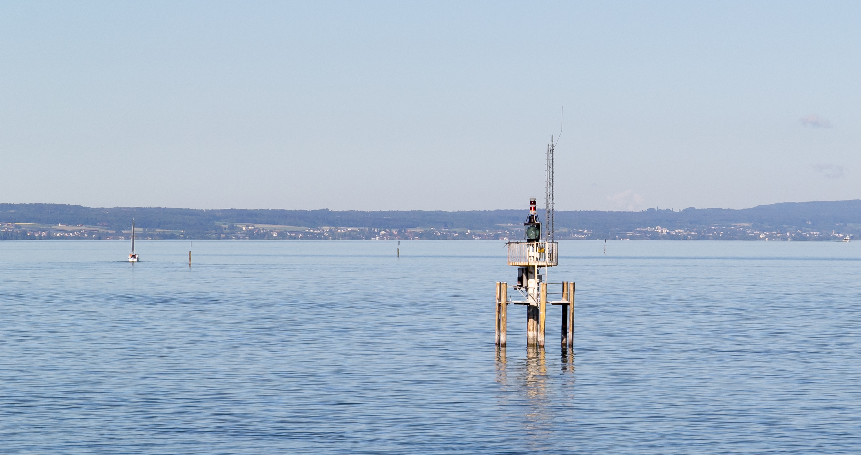 A beacon of the port of Friedrichshafen.